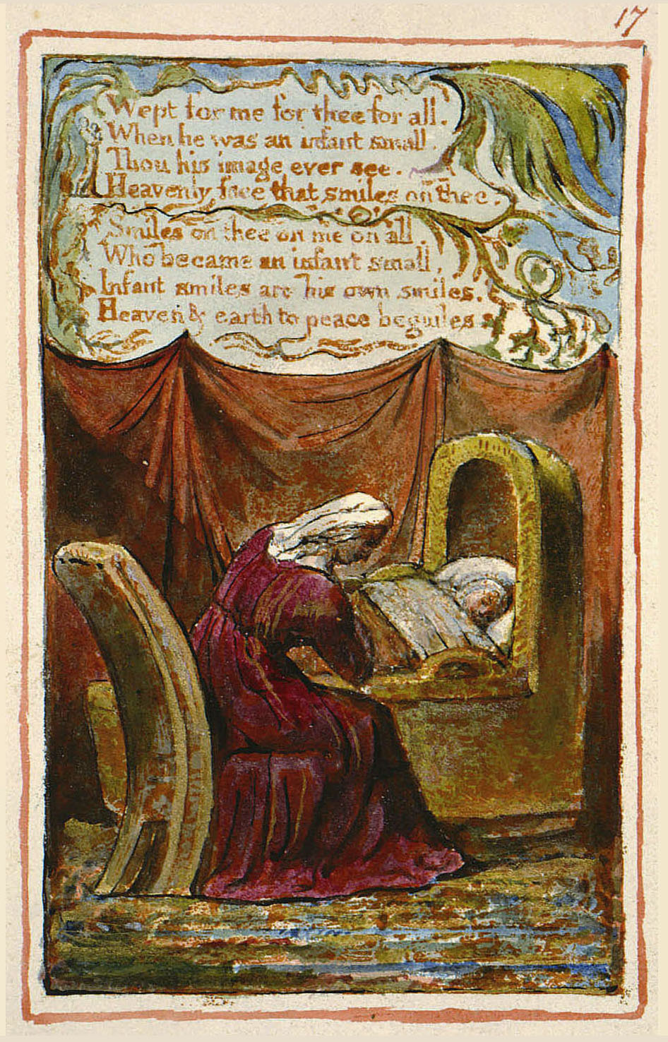 Songs of Innocence and of Experience, copy AA, 1826 (The Fitzwilliam Museum) object 17 A CRADLE SONG